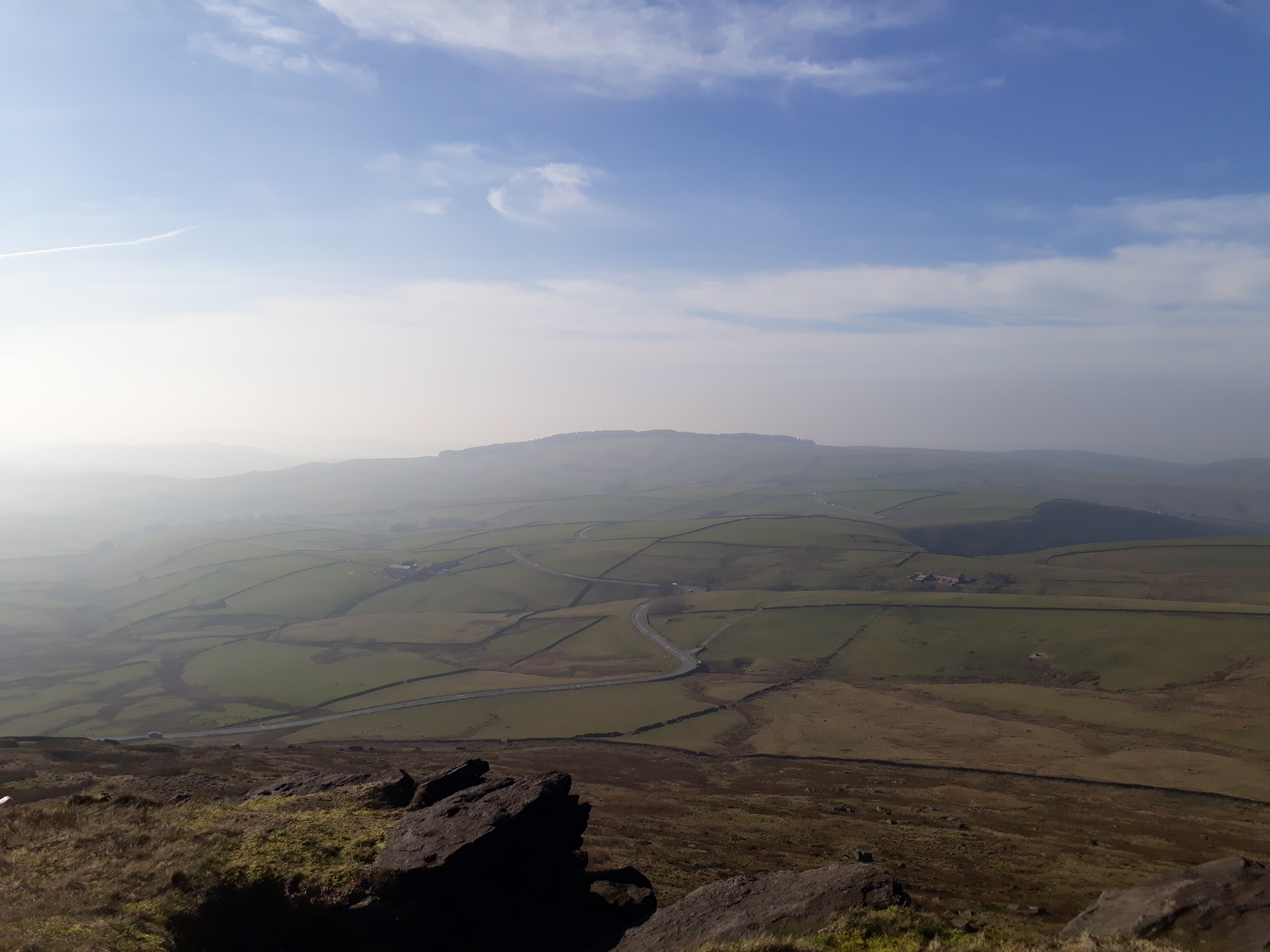 The view of the Cat and Fiddle road (A537) from the highest peak in Cheshire - Shining Tor